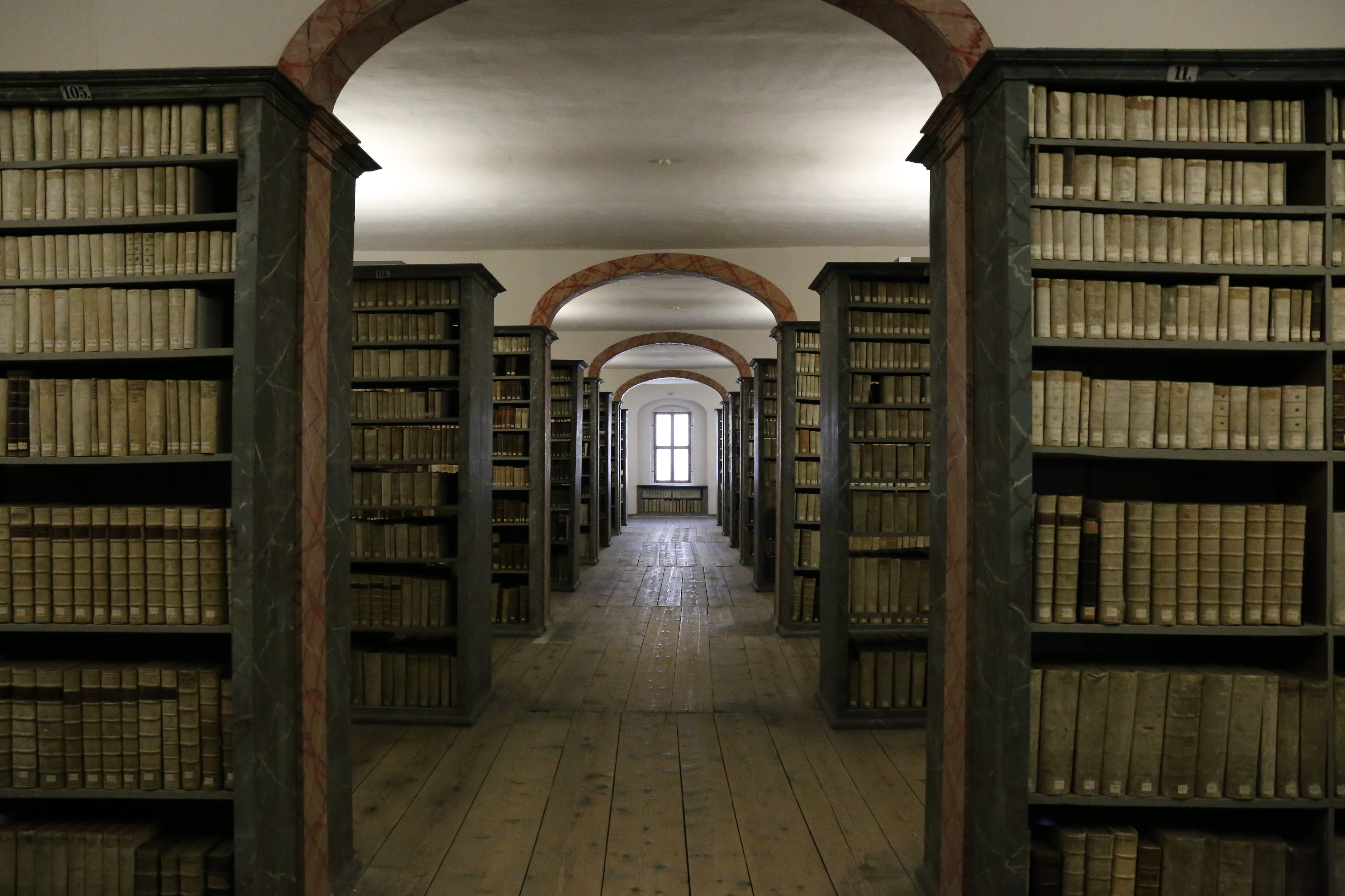 The Historical Library of the Francke Foundations in Halle, Germany